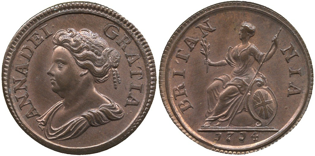 Queen Anne Farthing 1714 in mint state.